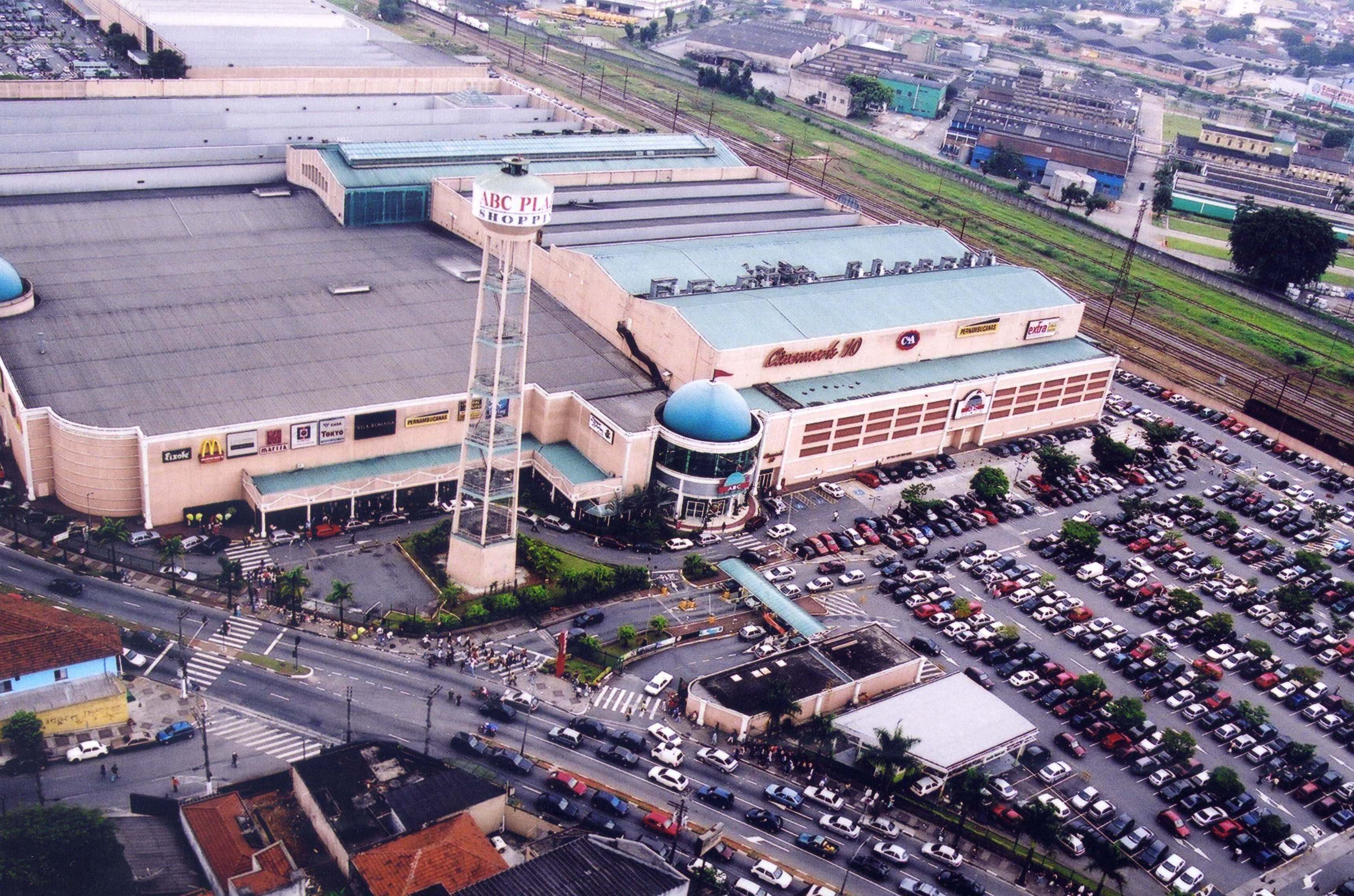 Air view of Grand Plaza Shopping, Santo André, Brazil